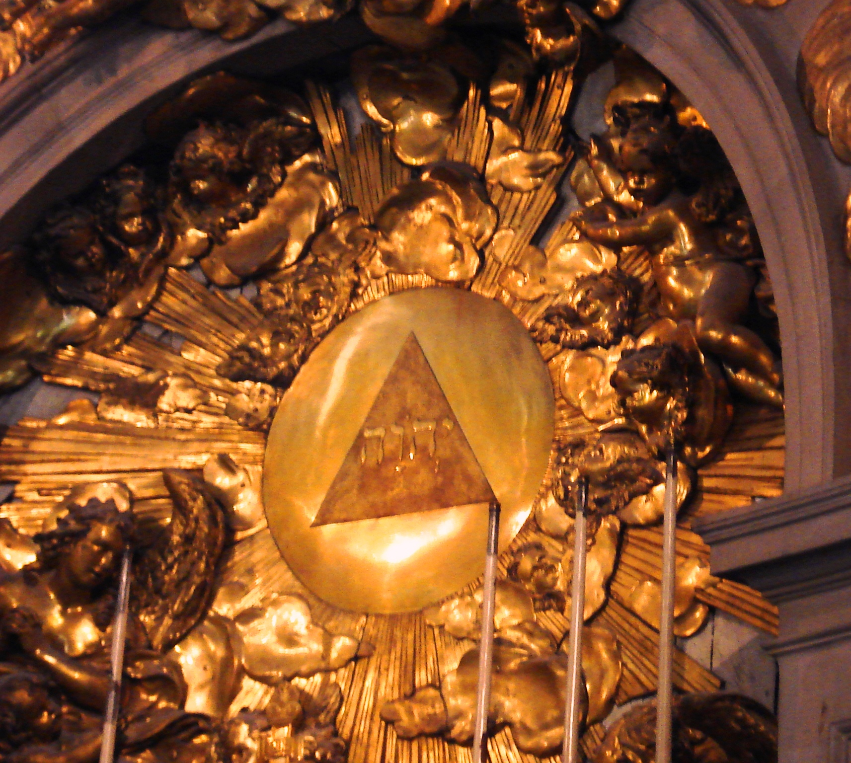 Tetragrammaton (Latin version of divine name, see Jehovah) at the 5th Chapel of the Palace of Versailles, France.